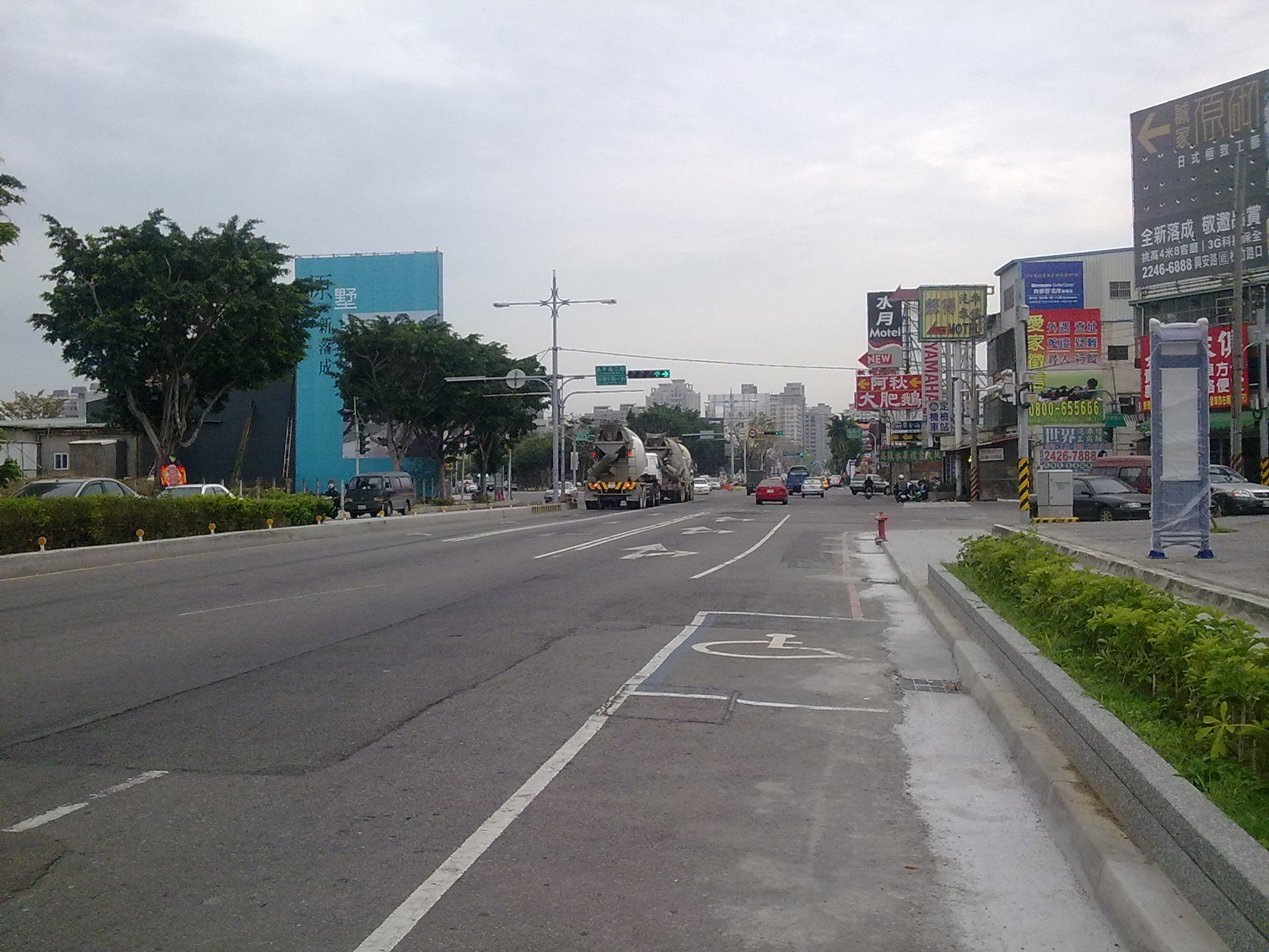 The corner of Congde Rd. Sec. 3, Cangping Rd. and Congde 10th Rd. It's in Taichung City,Taiwan.